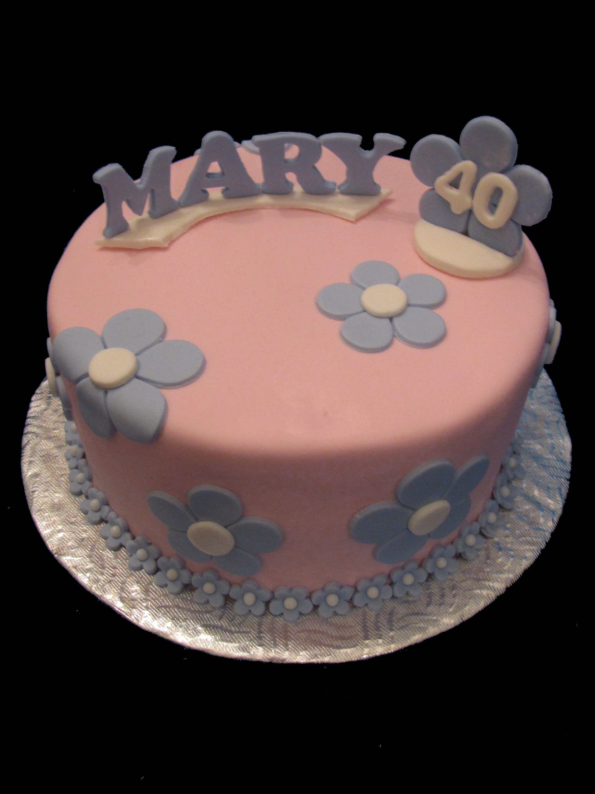 6" chocolate mud cake filled and frosted with chocolate ganache and covered in pink fondant to match cupcakes for a 40th birthday party. Cupcakes can be seen here